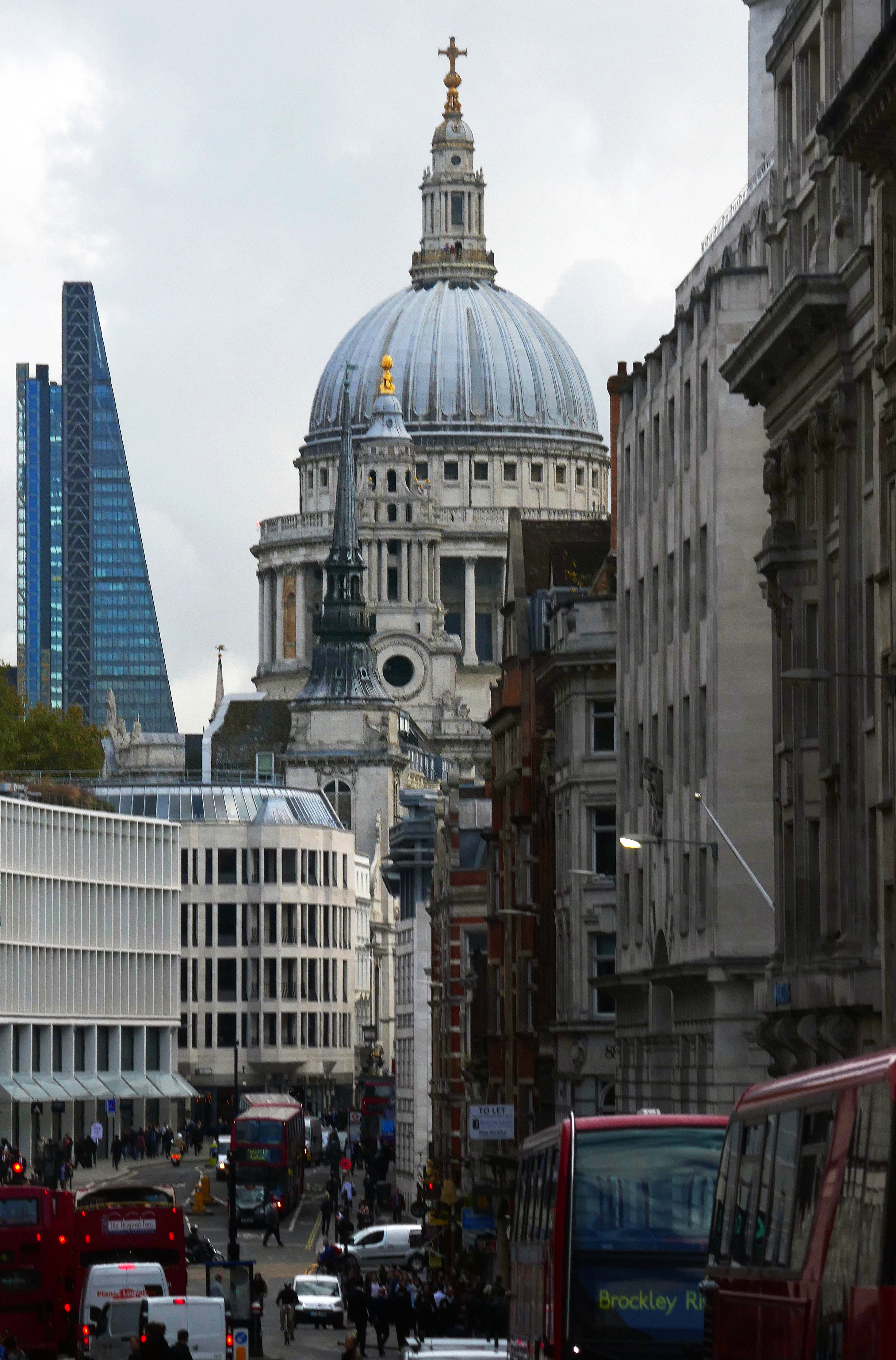 The dome and northwest tower from Ludgate Hill, showing the densely developed area in which St. Paul's is located.